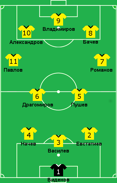 FC Minyor Pernik line-up in the 1958 Bulgarian cup final